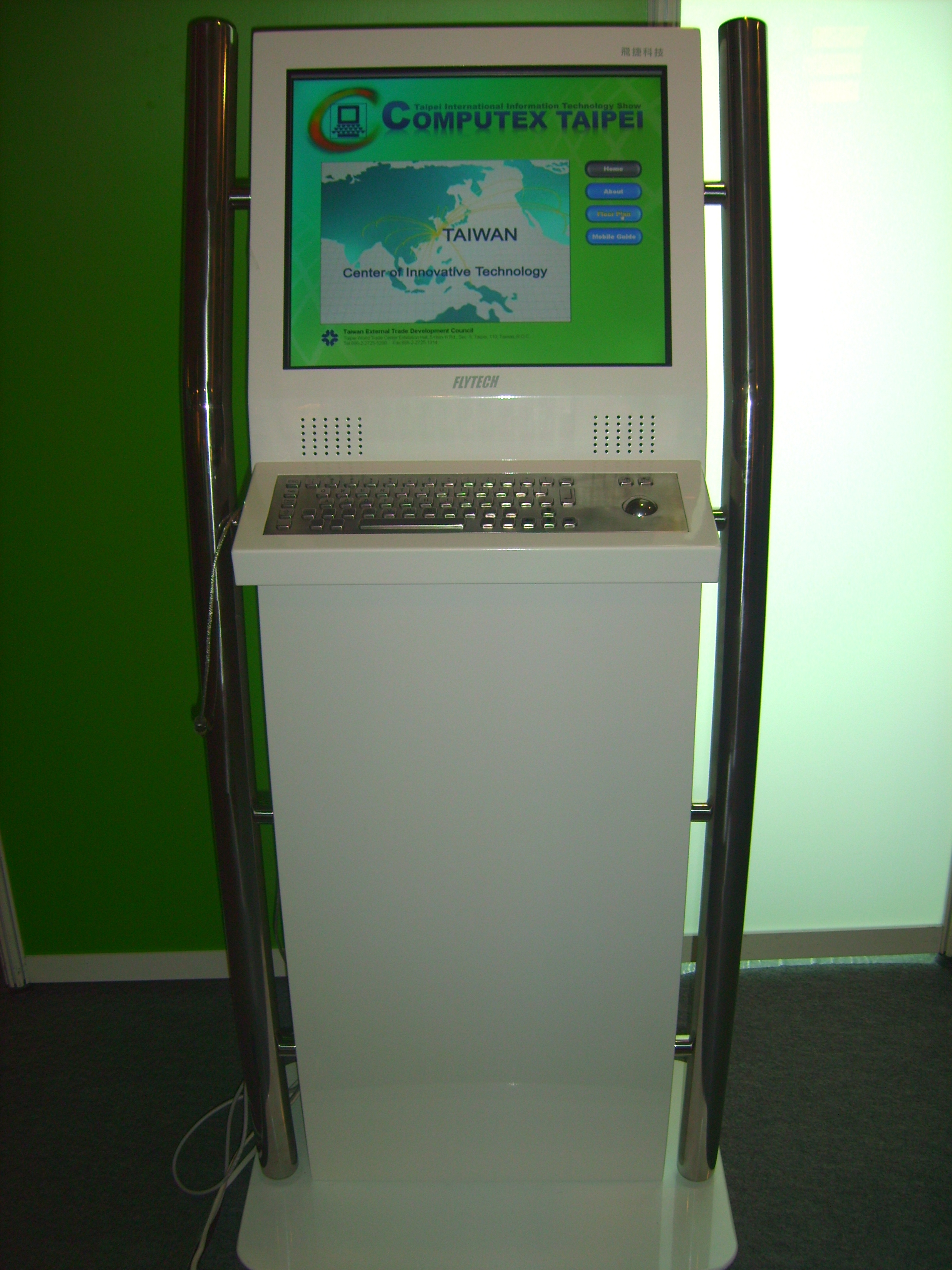 A kiosk of Guidance System is provided by FLYTECH Technology Co., Ltd. at the 27th COMPUTEX Taipei, this system is available for Pocket PC users to download Computex Pocket Guide.